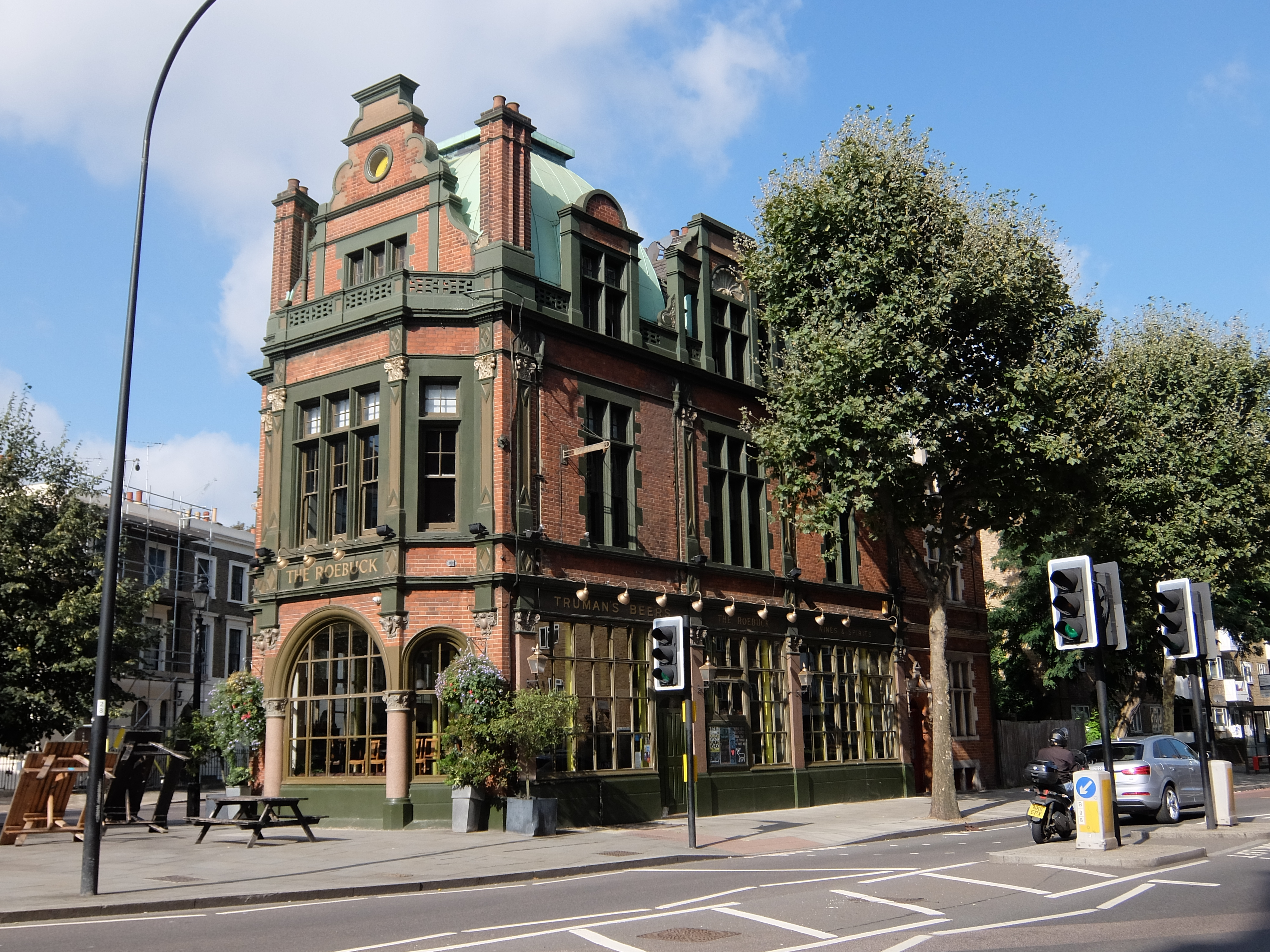 The Roebuck Public House Wikidata has entry Q26673079 with data related to this item.